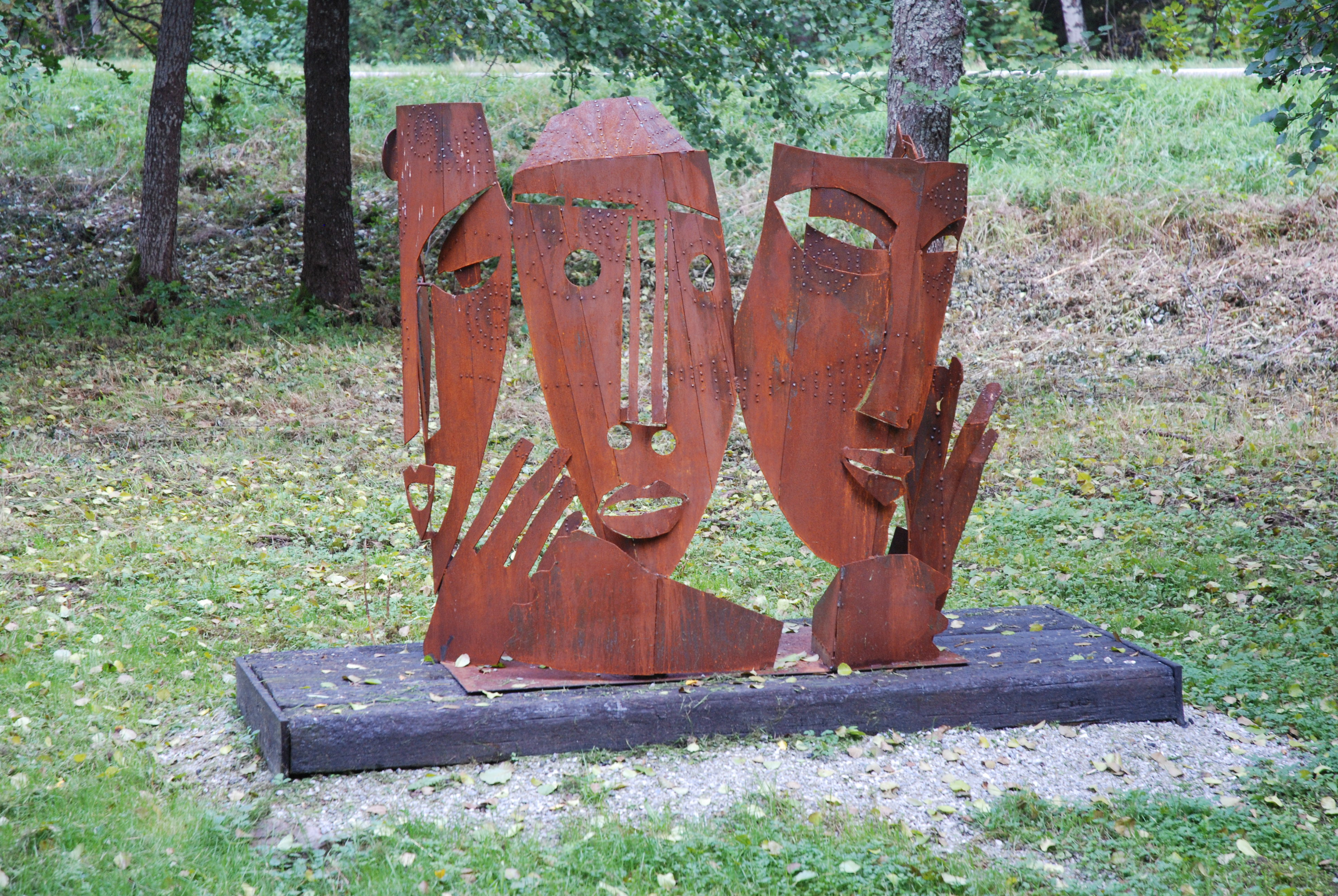 Kent Wahlbeck´s The Puzzled Choir at Skulpturpark Ängelsberg